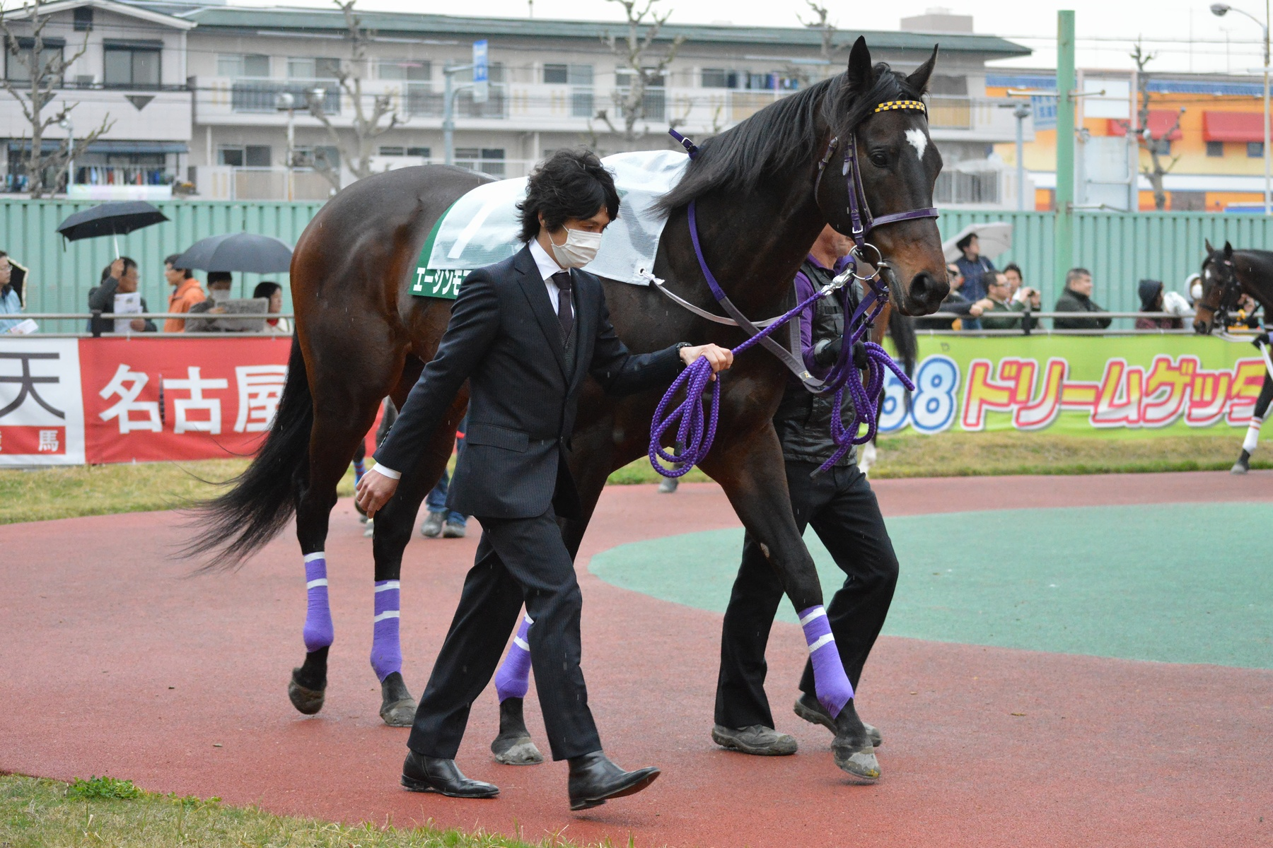 Japanese race horse A Shin Moreover at Nagoya racecourse. Nagoya (JPN) 20 Mar 2013 Nagoya Daishoten (Local Grade 3) (Dirt) (4yo+) 1m11/2f Muddy RankHorse NameOddsAgeWgtTrainerJockey1stHokko Tarumae (JPN)1/5FC48-9Katsuichi NishiuraHideaki Miyuki2ndA Shin Moreover (JPN)31/10H79-0Yoshio OkiYasunari Iwata3rdDaishin Orange (JPN)31/1H88-9Yasushi ShonoYuga Kawada4th - 12th/omission